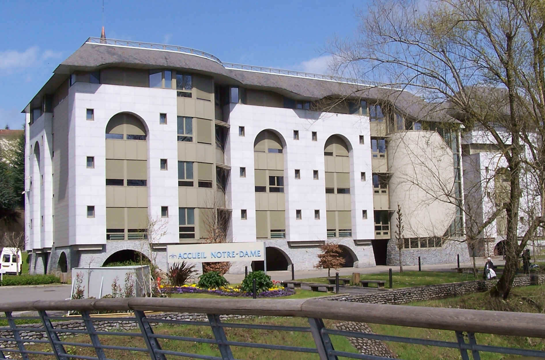 Image of the Accueil Notre Dame building in the Sanctuary of Our Lady of Lourdes, taken from the bridge across the river Gave. Kodak DX6490 digital camera.